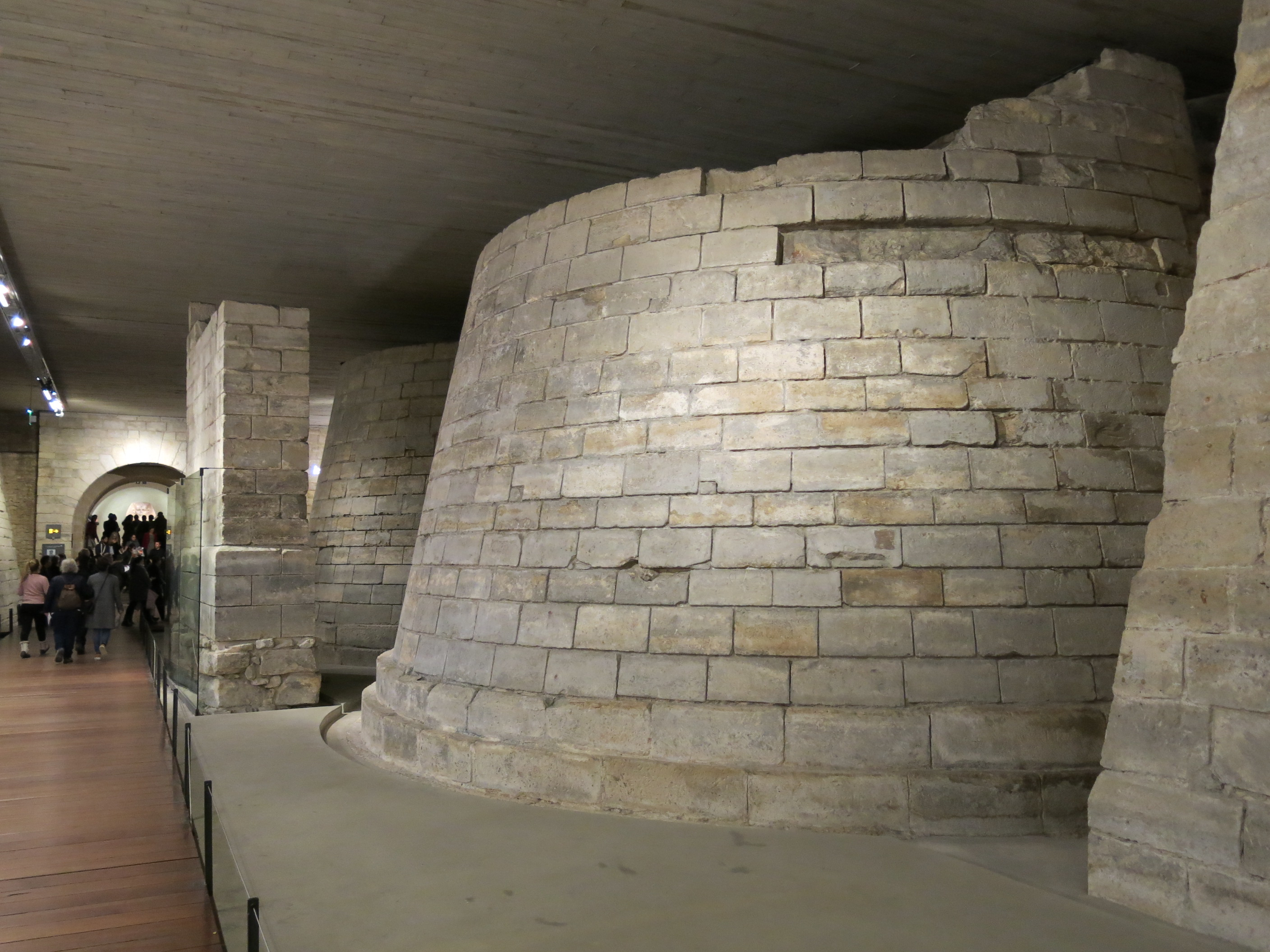 Towers of the entrance in the eastern wall of the medieval Louvre (Paris, France). The rectangular pillar supported the drawbridge.